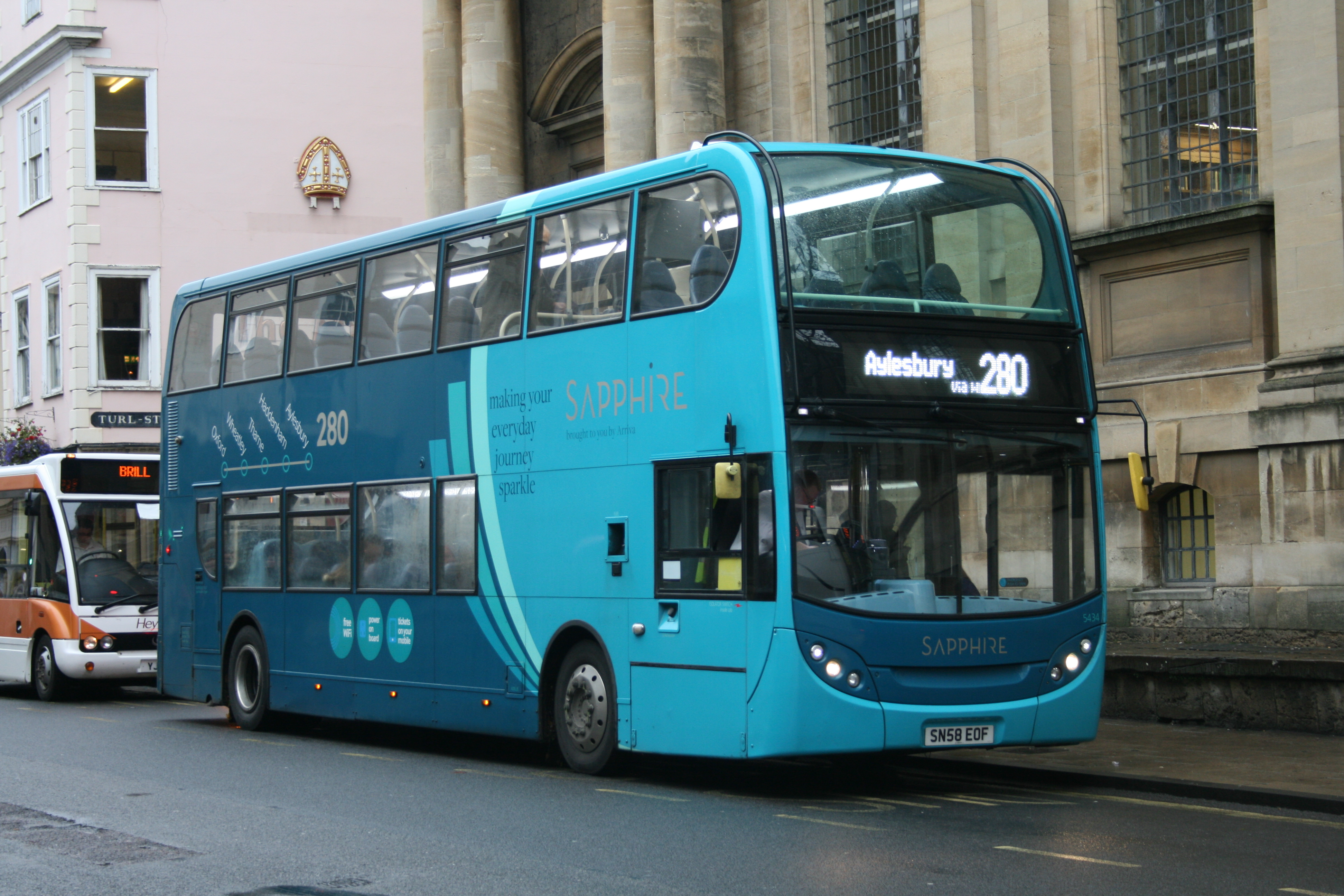 An Arriva the Shires bus on route 280 outside Lincoln College Library, High Street, Oxford. The bus is an Alexander Dennis Enviro400, registration mark SN58 EOF, fleet number 5434. Behind it is a Heyfordian bus on route 118 to Brill.